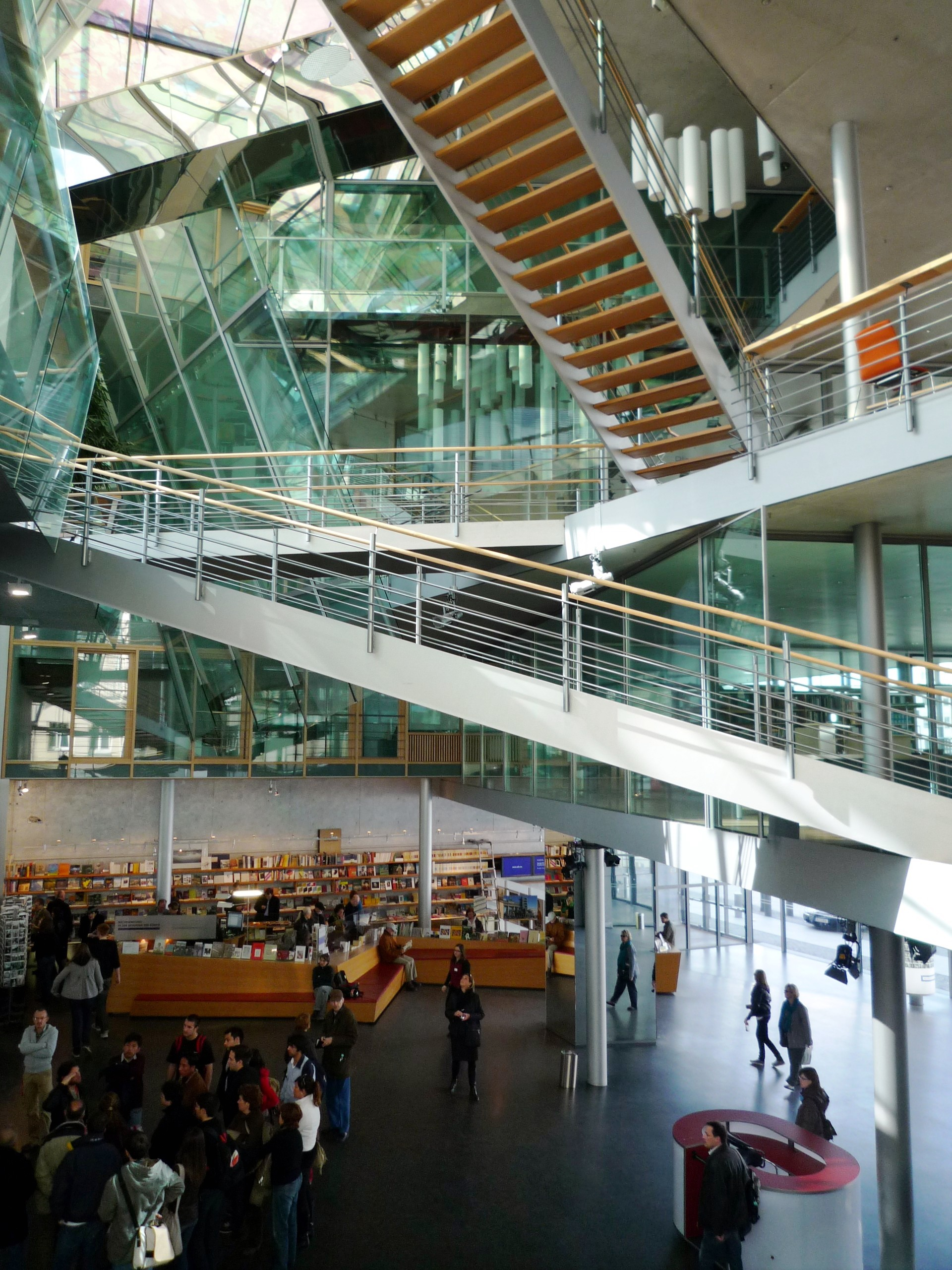 Akademie der Künste (Academy of Fine Arts) at Pariser Platz in Berlin. Entrance hall and staircases.